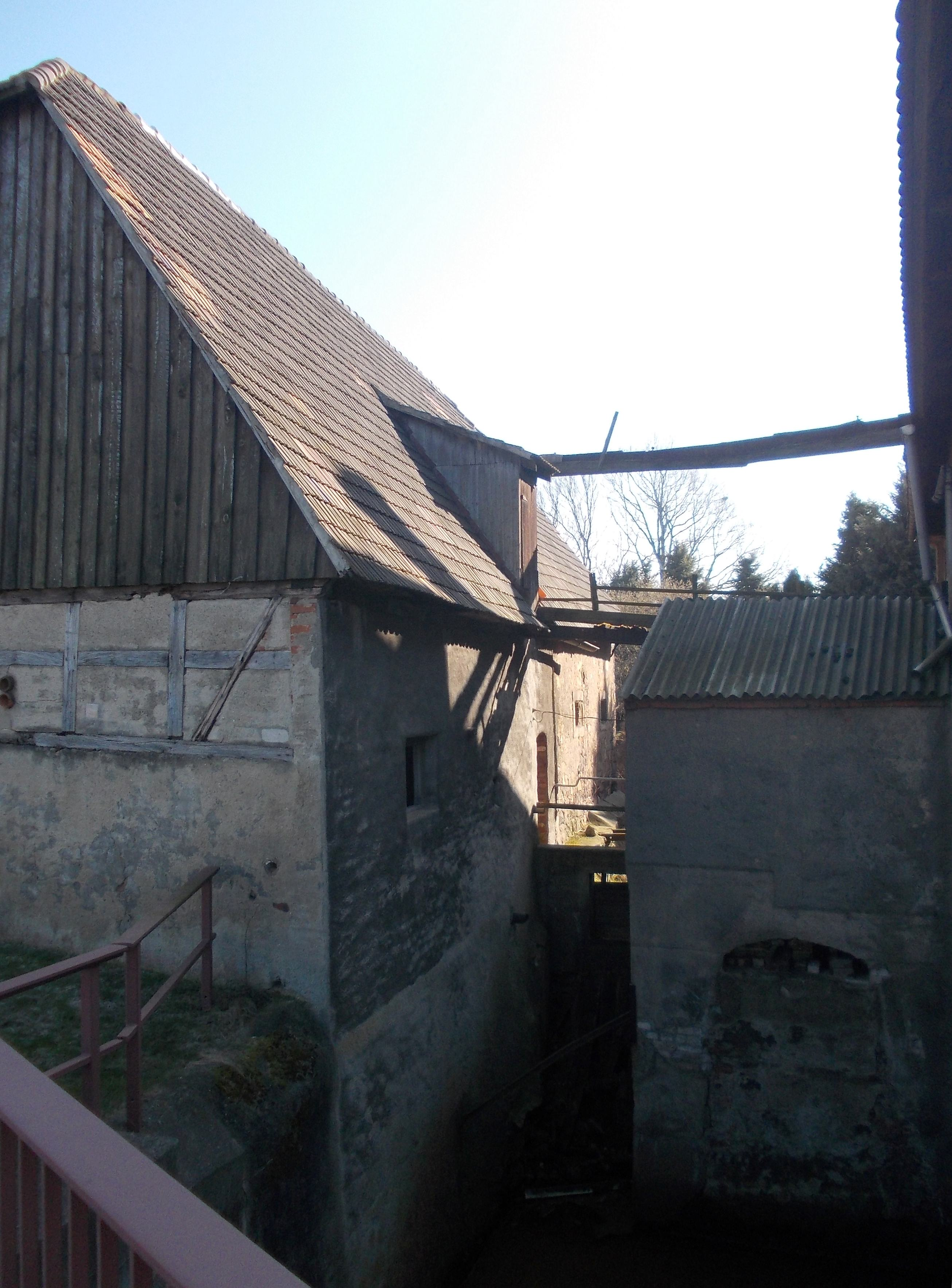 Watermill in Wyhra (Borna, Leipzig district, Saxony)